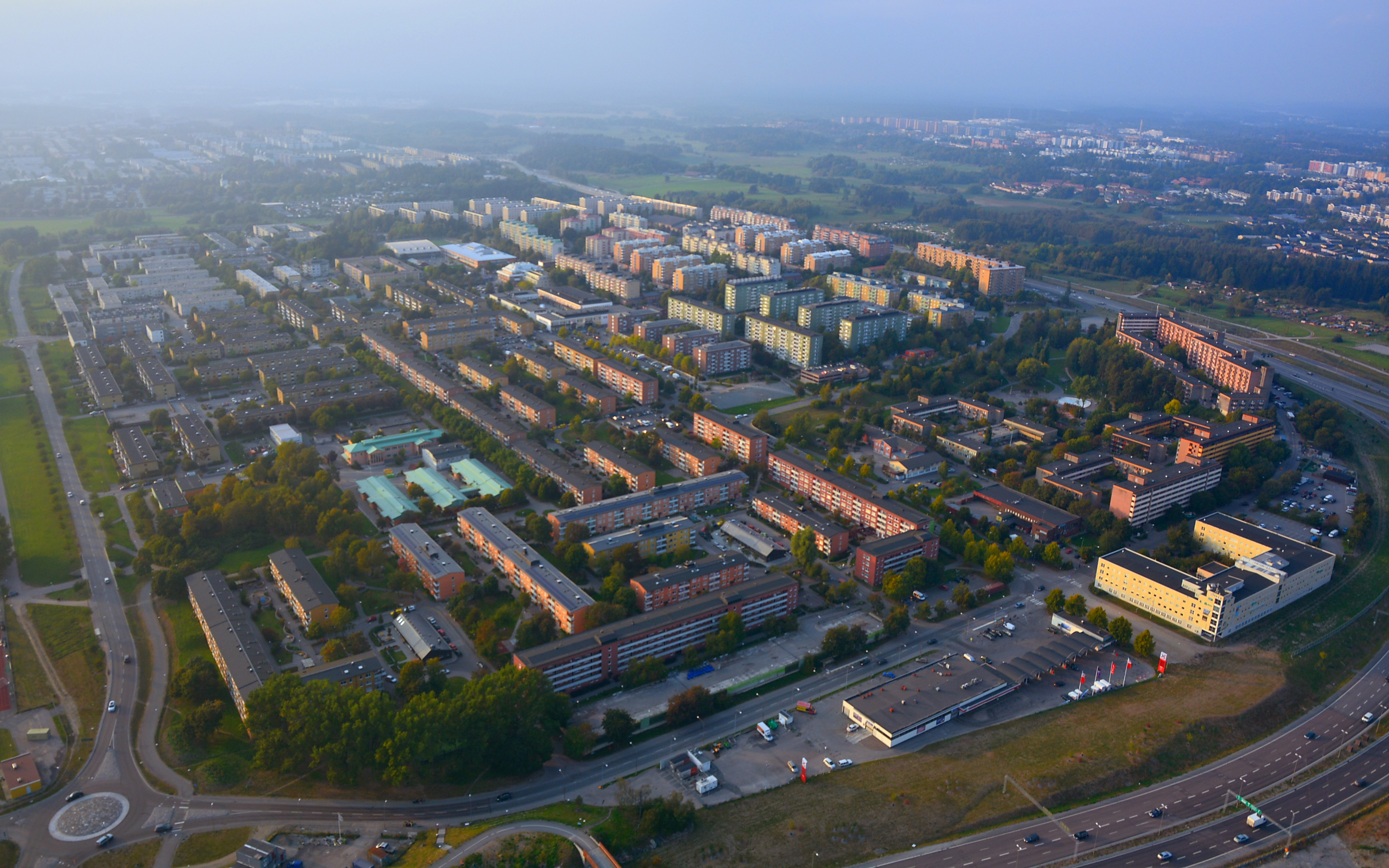 Rinkeby in western Stockholm, Sweden.